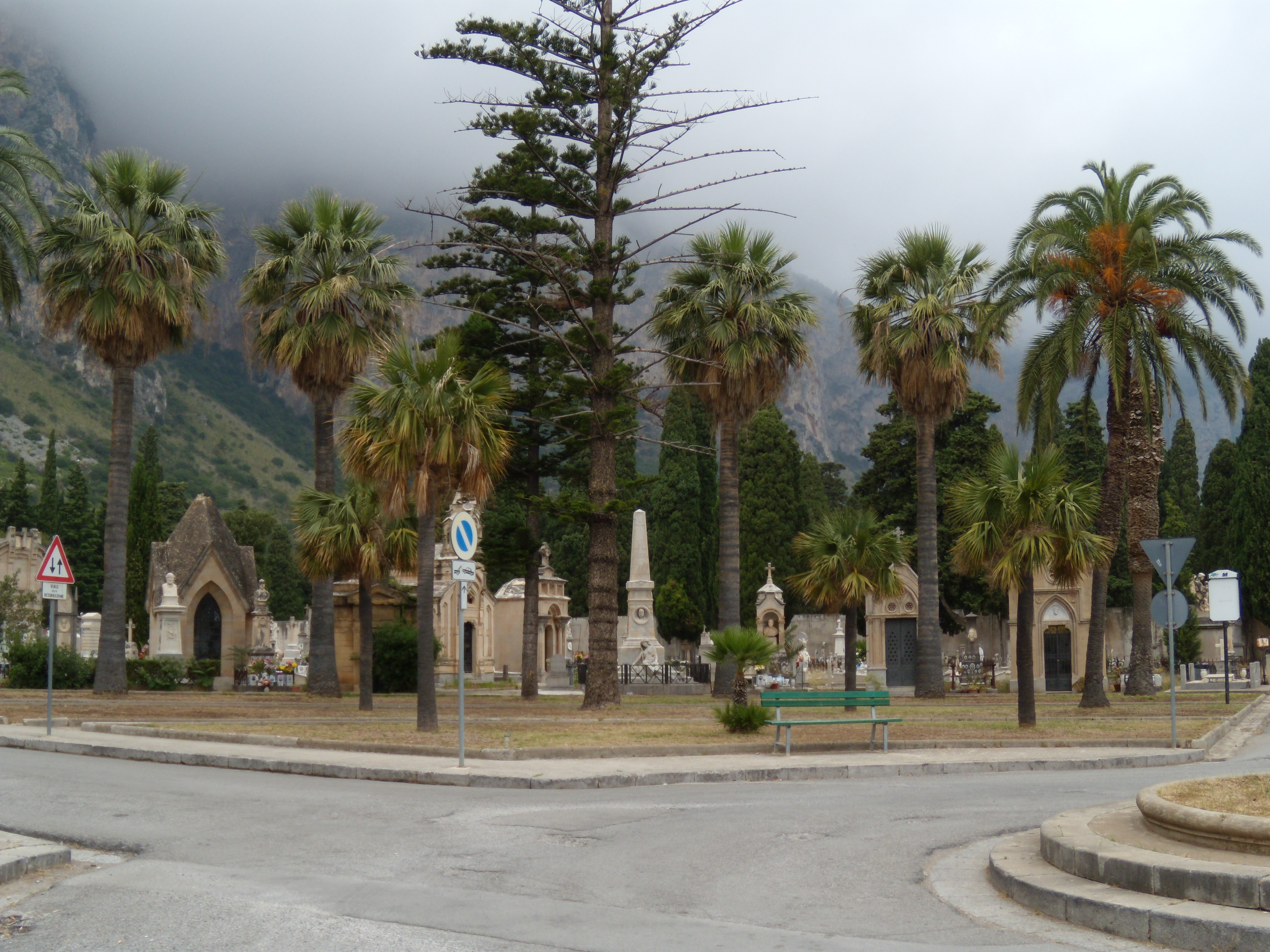 View of S. Maria dei Rotoli in Palermo